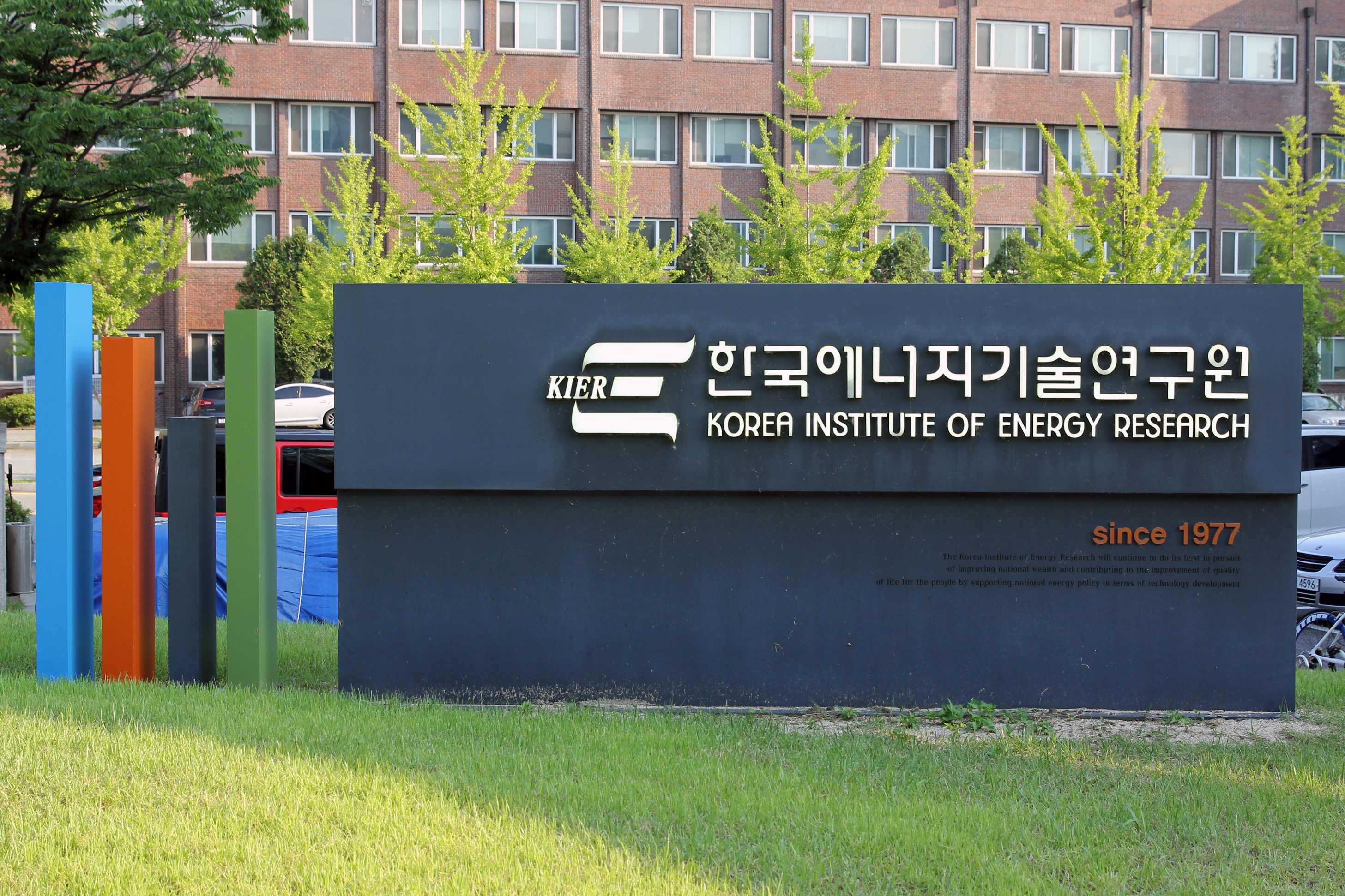 Sign by the entrance to the Korea Institute of Energy Research